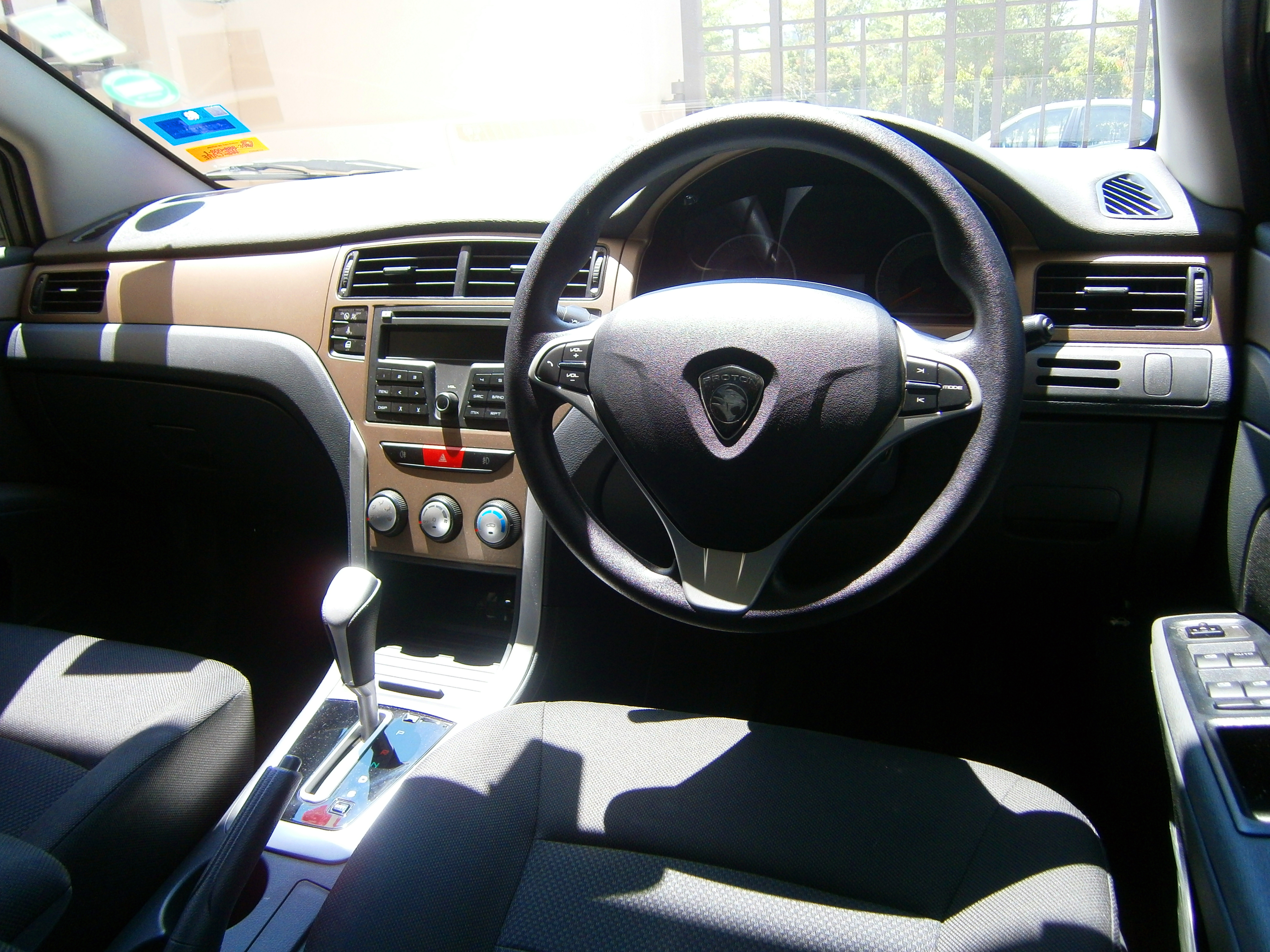 2014 Proton Prevé Executive - Driver's Cockpit. Designed & Assembled in Malaysia